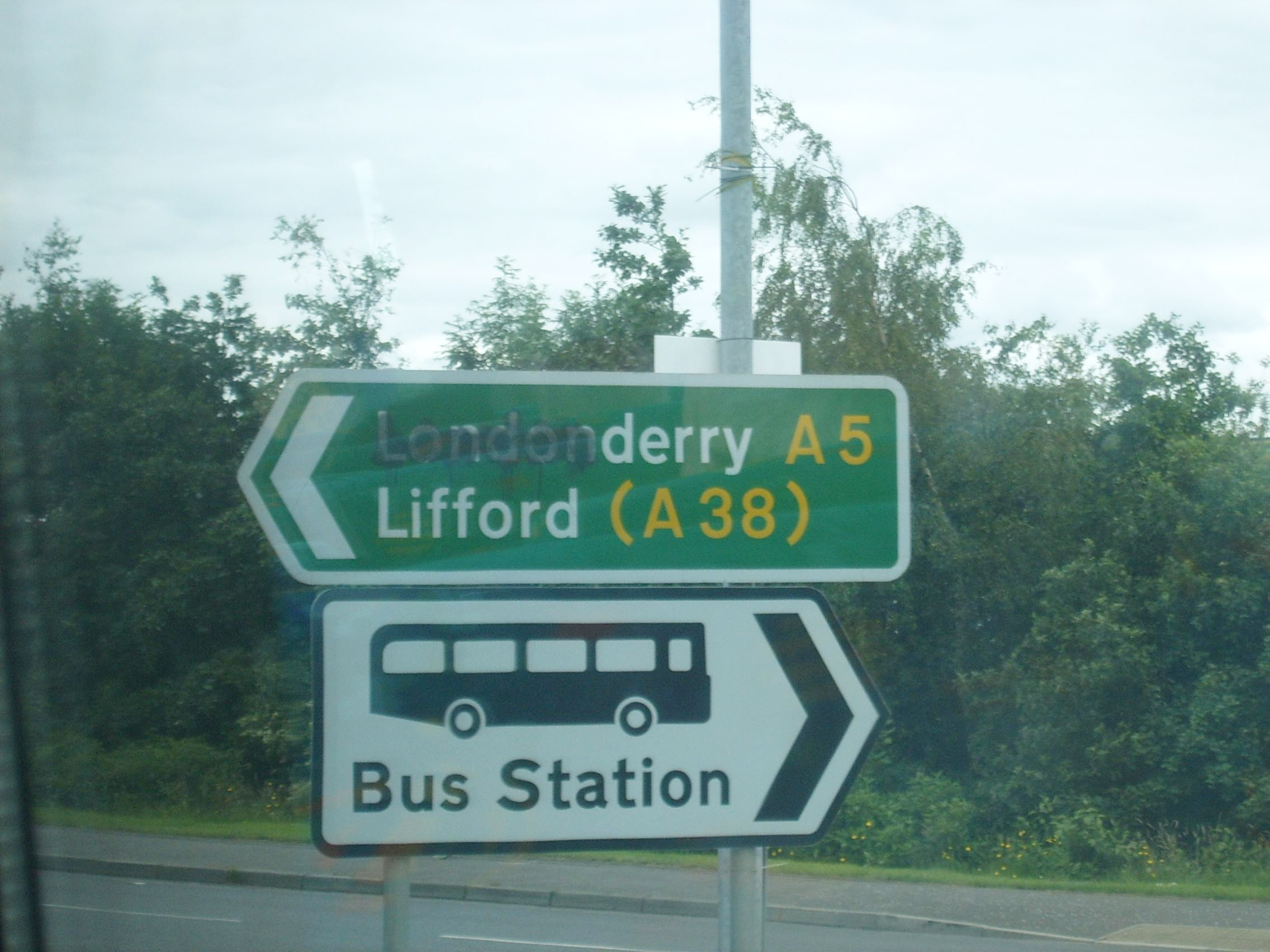 Photograph of a vandalised road-sign in Strabane, County Tyrone, Northern Ireland. Taken by User:Danny Invincible on en:26 June en:2007.